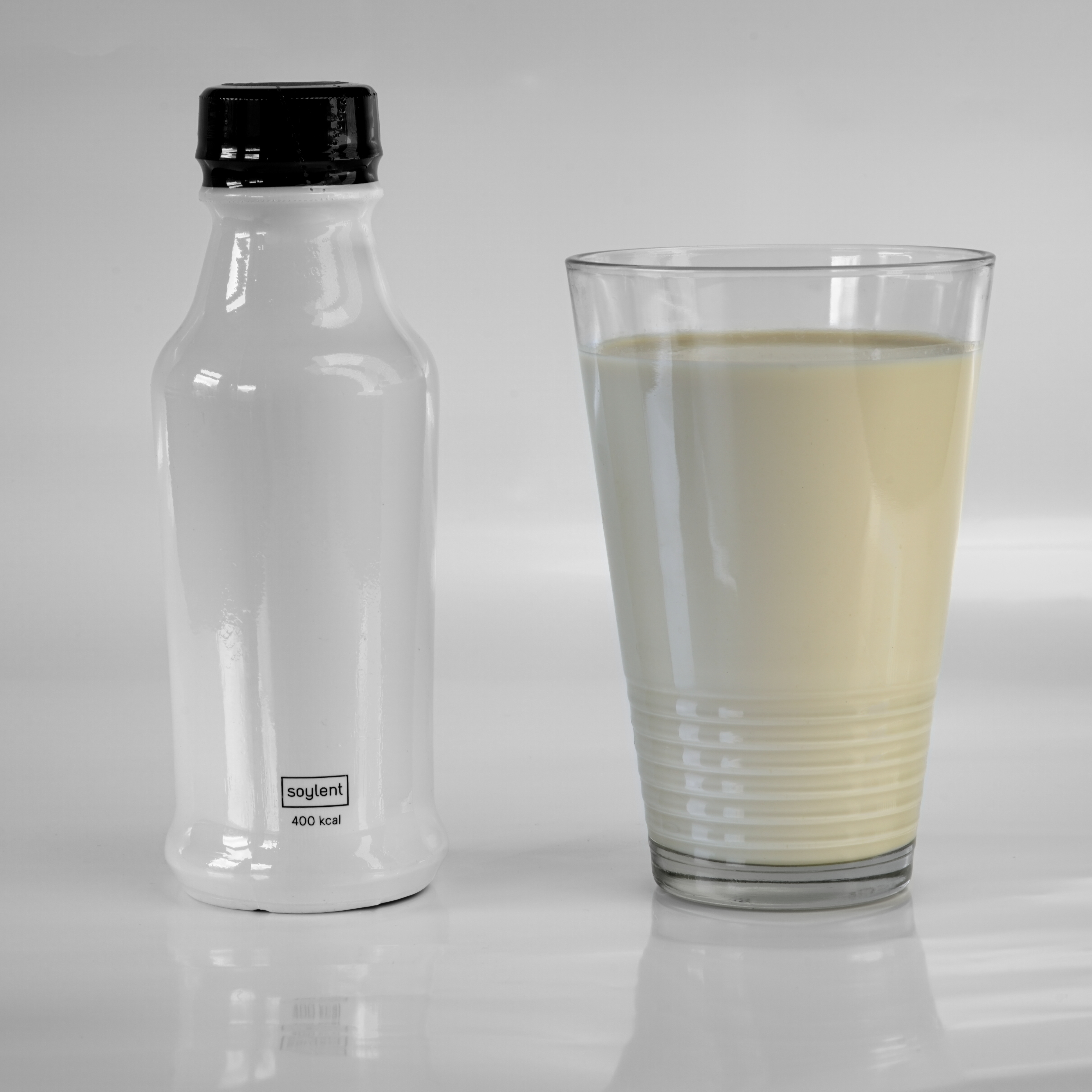 A bottle of Soylent 2.0 and the drink poured into a glass.